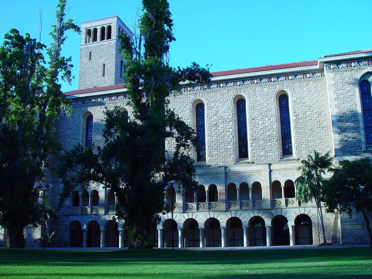 Image title: Hackett hall university of western Australia Image from Public domain images website